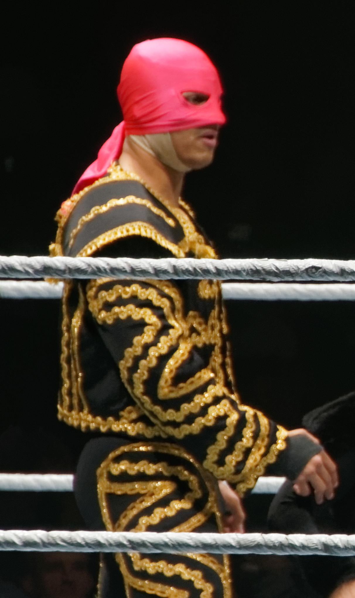 Diego (aka Eddie Colon) in the ring on November 8, 2013.